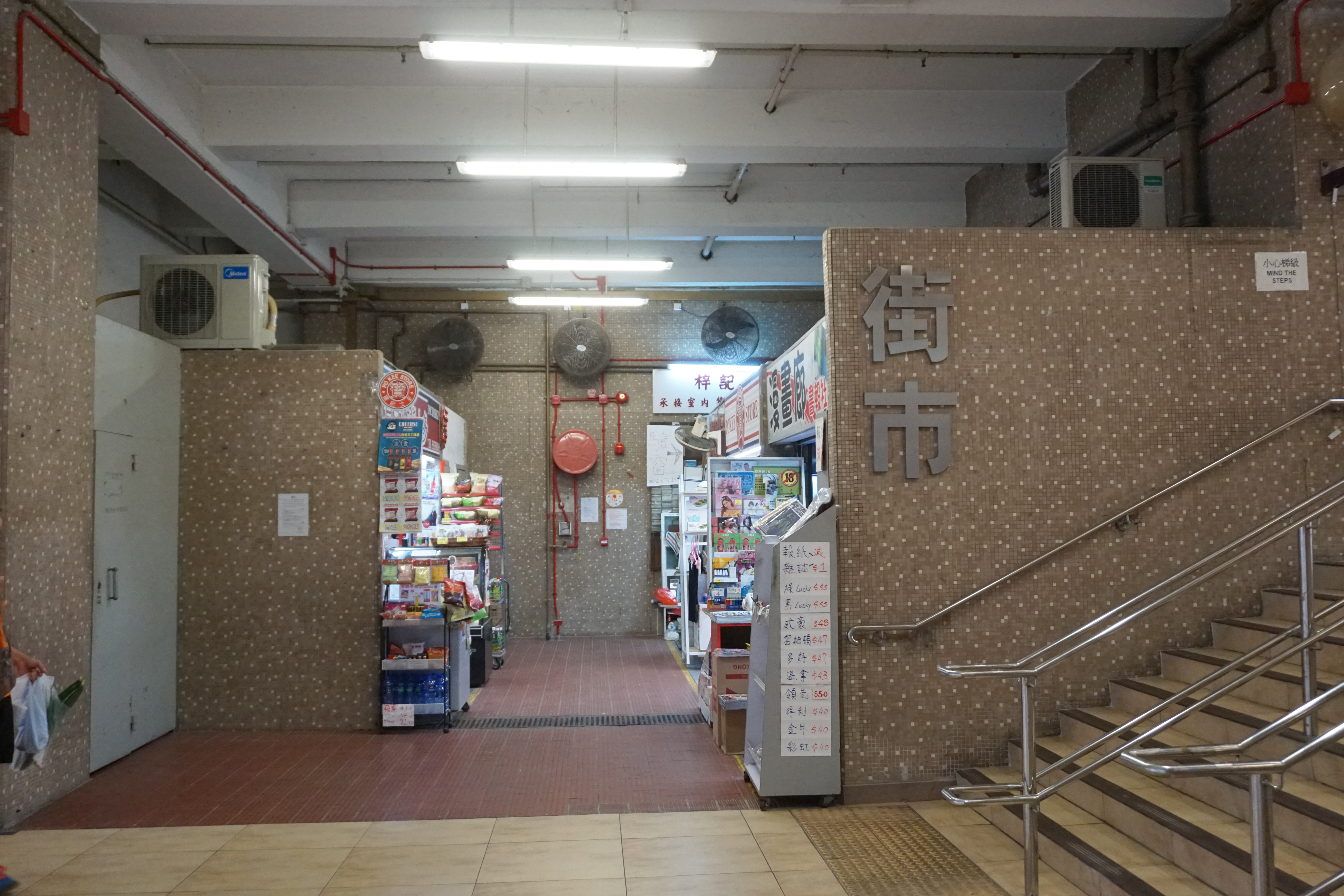 Lung Poon Court in Diamond Hill, Hong Kong.